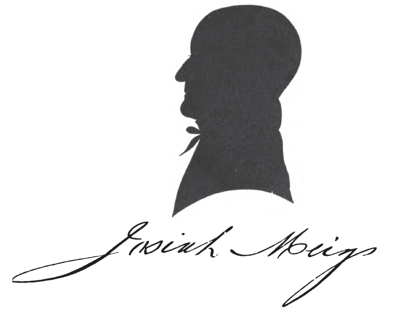 Josiah Meigs silhouette